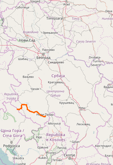 OpenStreetMap of State Road 29 in Serbia.